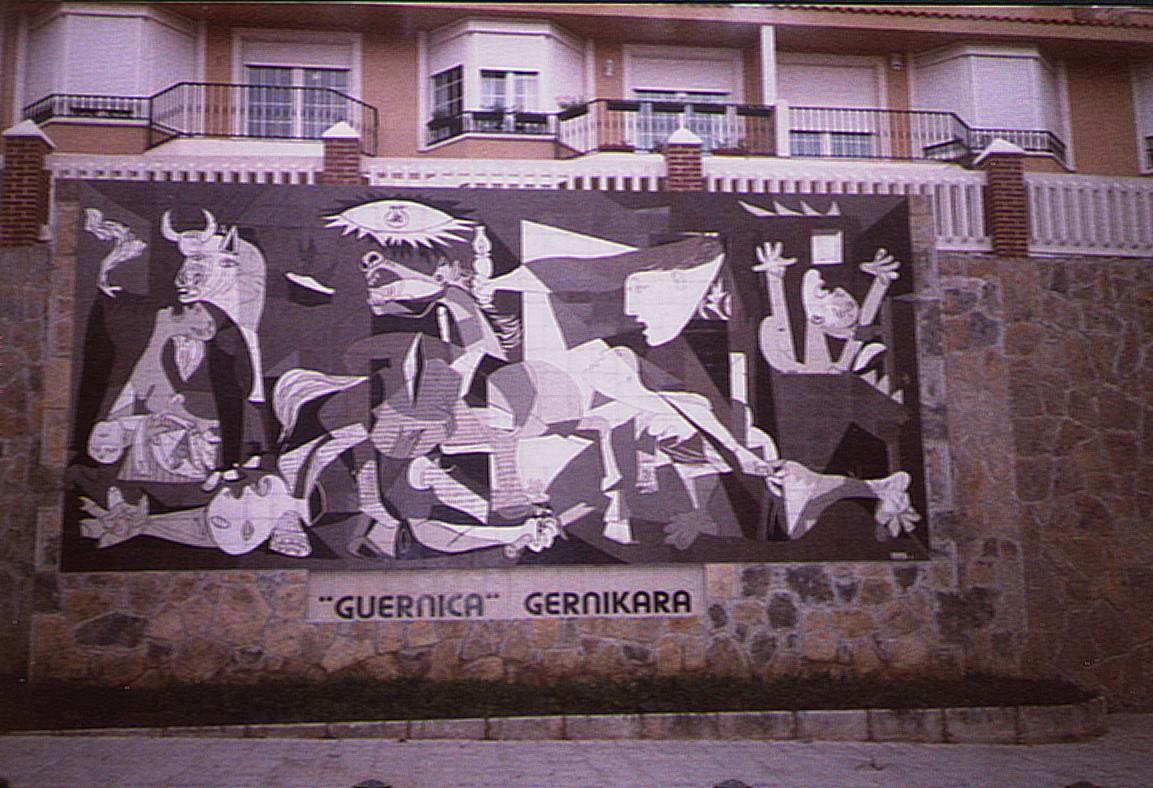 "Guernica Gernikara", a Basque language slogan on a tiled wall in Gernika claiming for the installation of Guernica in Gernika. I took the picture in 1997, I think. I tried to correct the poor scanning.